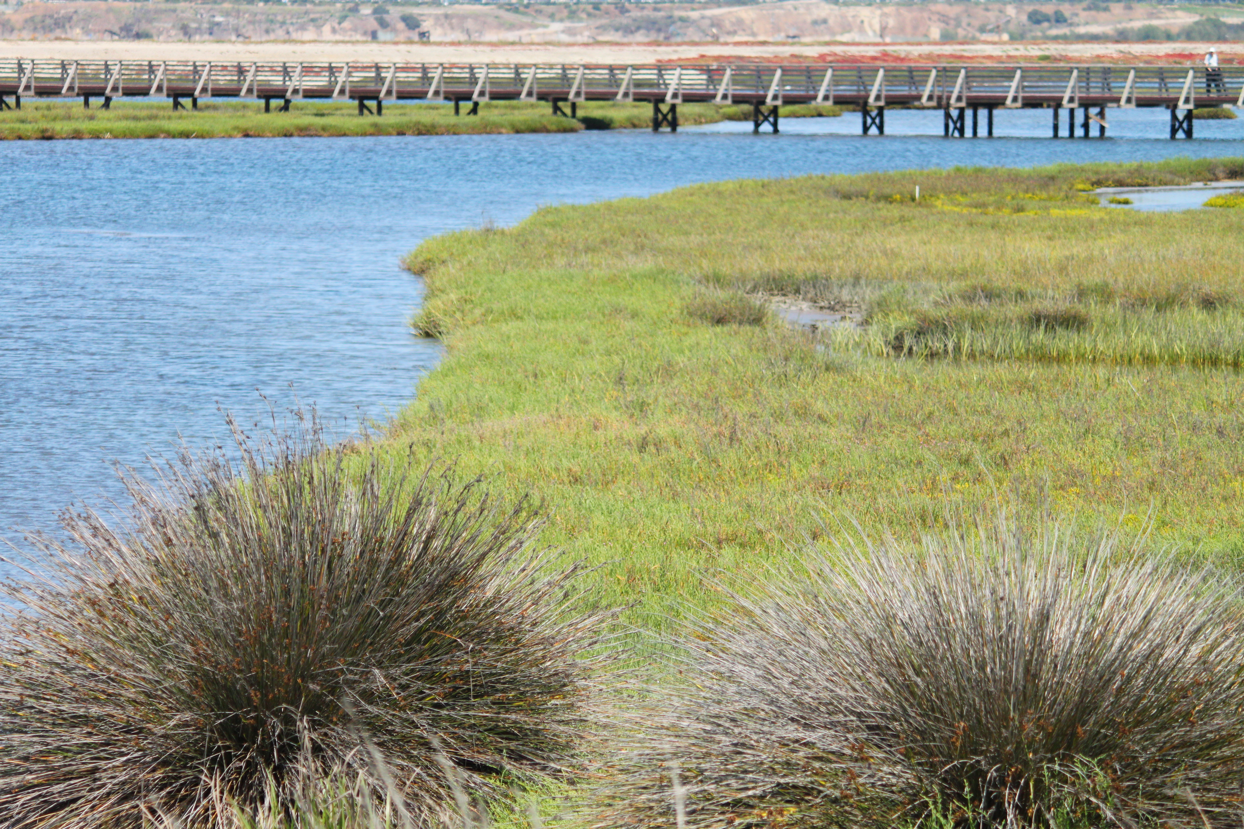 A south-facing view of the pedestrian bridge and surrounding lagoon